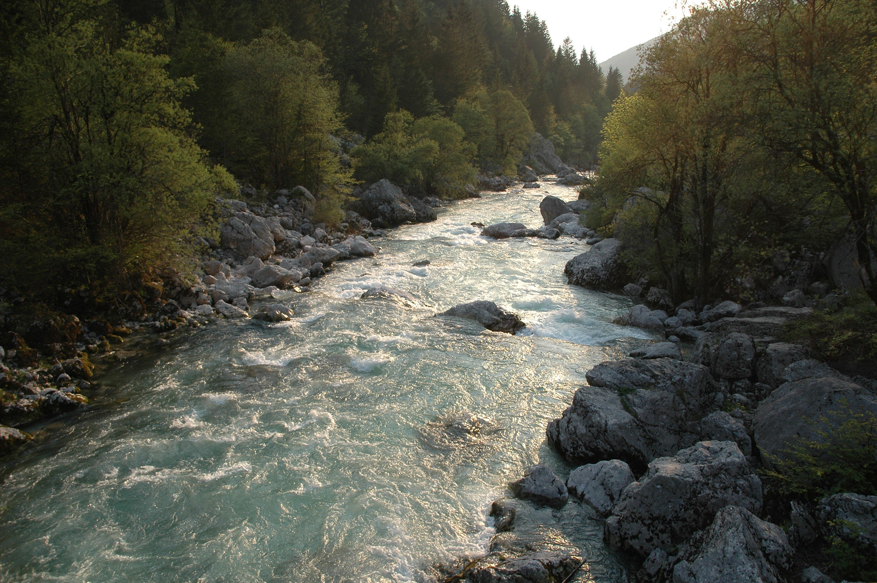 Soca flowing through the Spodnja Trenta in the Triglav national park, Slovenia